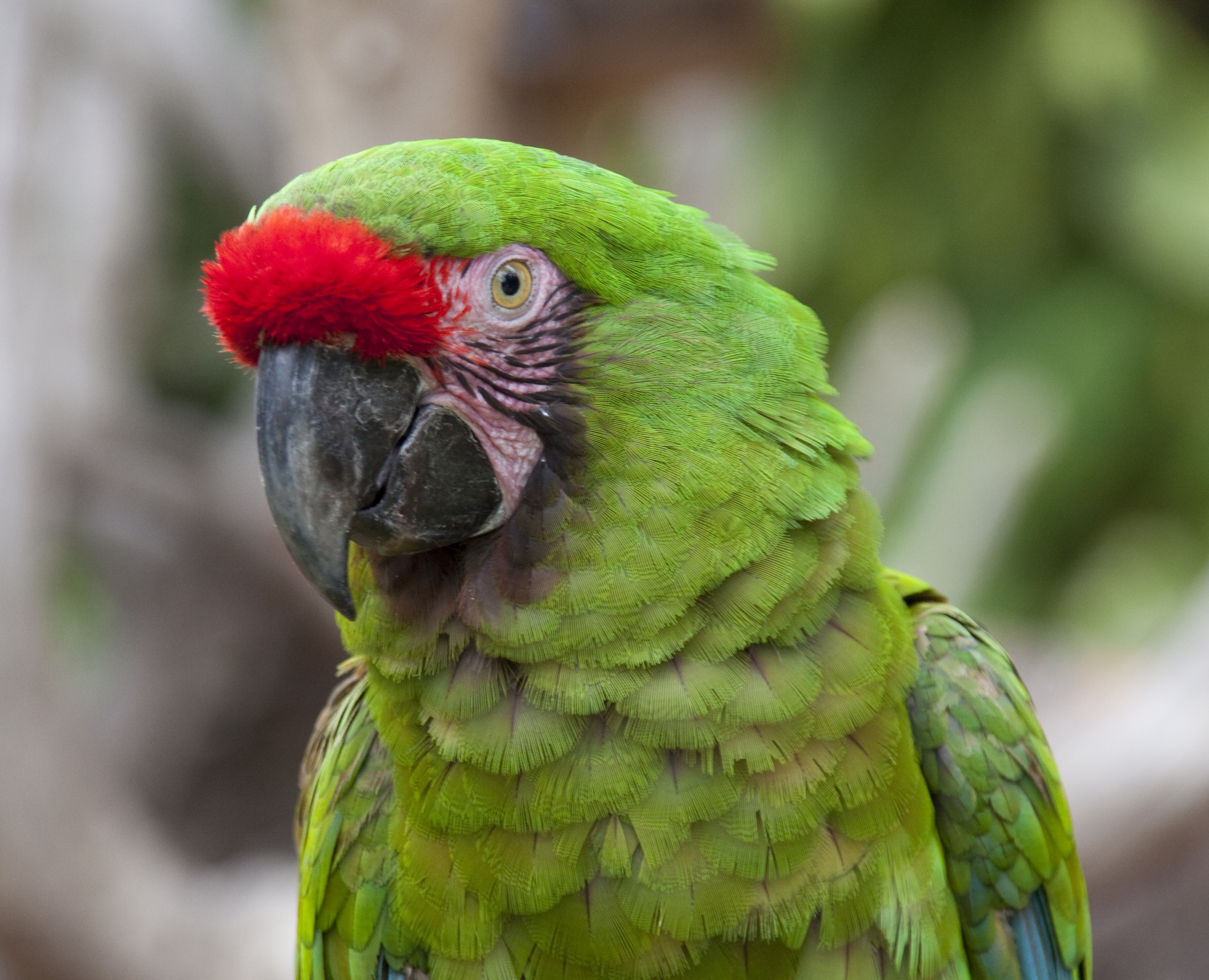 Military Macaw Ara militaris in captivity at Occidental Grand Xcaret Resort, Yucatan, Mexico.